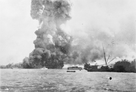 MV Neptuna explodes at Stokes Hill Wharf, Darwin, sending a column of débris and smoke hundreds of metres into the air. Directly in front of the explosion is the small Patrol Craft HMAS Vigilant which is undertaking rescue work. In the centre background is the floating dry dock holding the corvette HMAS Katoomba. In the centre foreground a lifeboat pulls away from the damaged SS Zealandia (right) which was dive-bombed and later sunk.